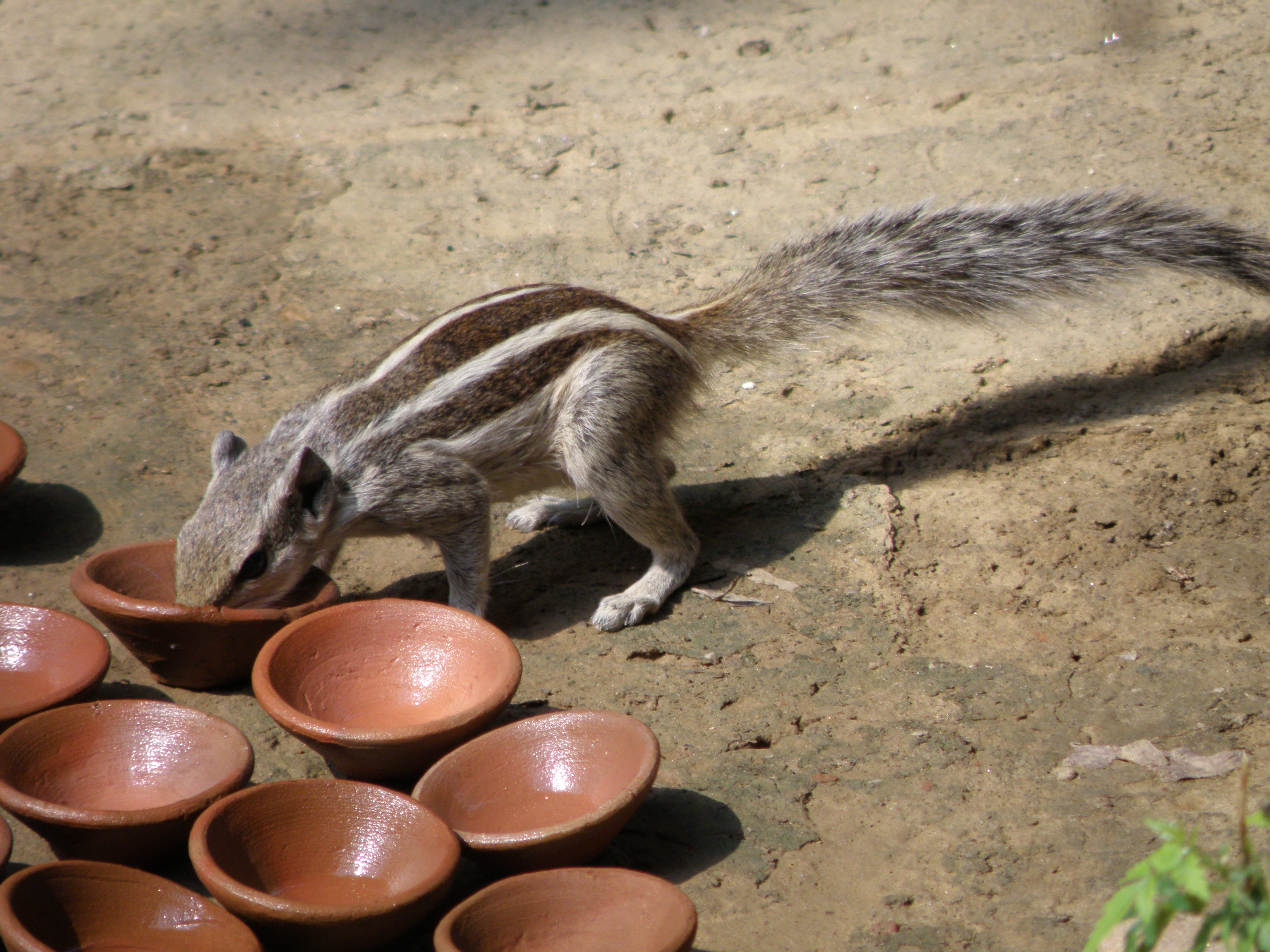 A squirrel drinking water in India